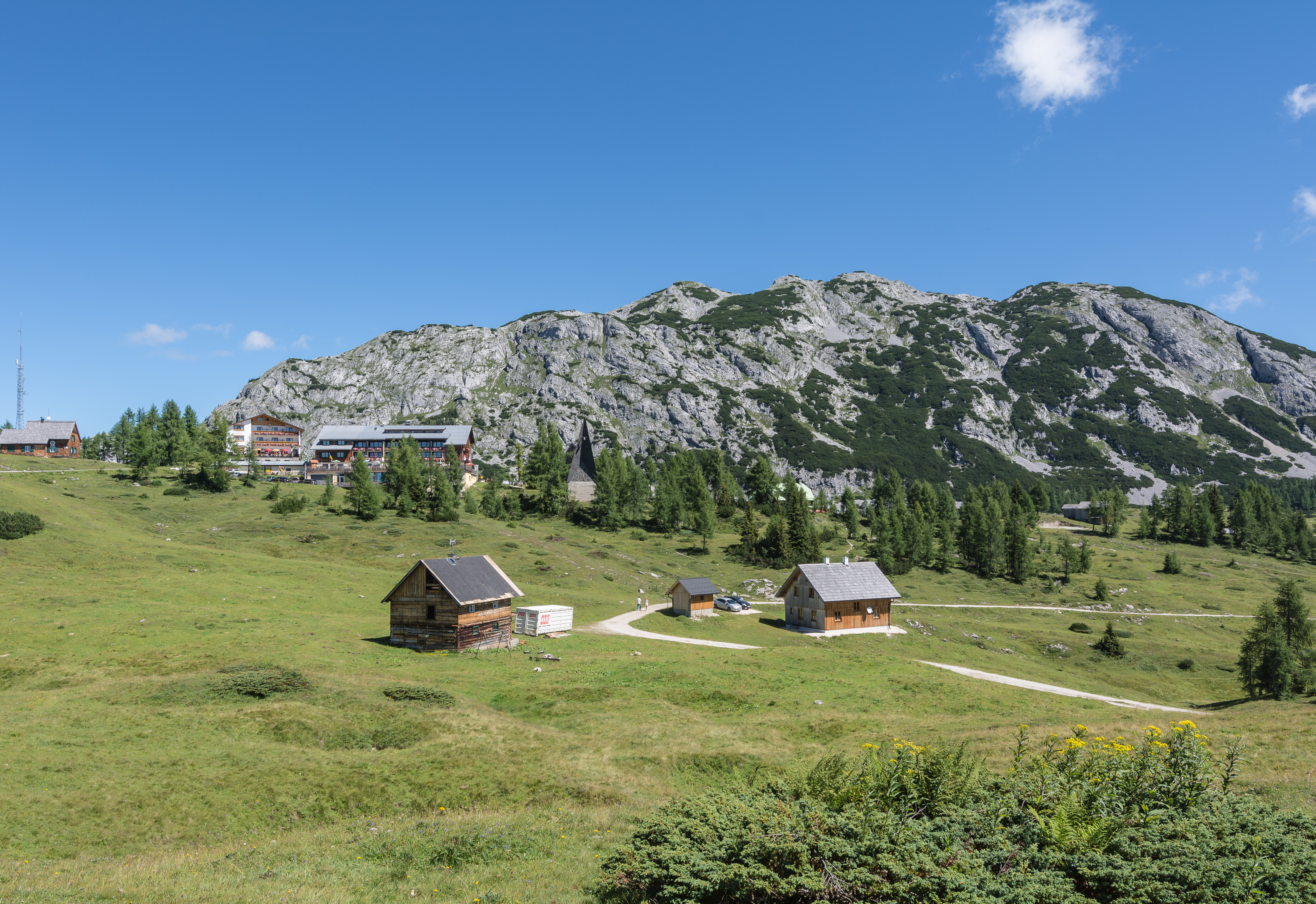 The ridge of Traweng (1981 m) dominates the eastern part of the alpine pasture Tauplitzalm in Styria. It belongs to the nature reserve 17a of Styria. The church of Tauplitzalm is protected as cultural heritage monument. This media shows the nature reserve in Styria with the ID NSG a 17 (Totes Gebirge Ost).